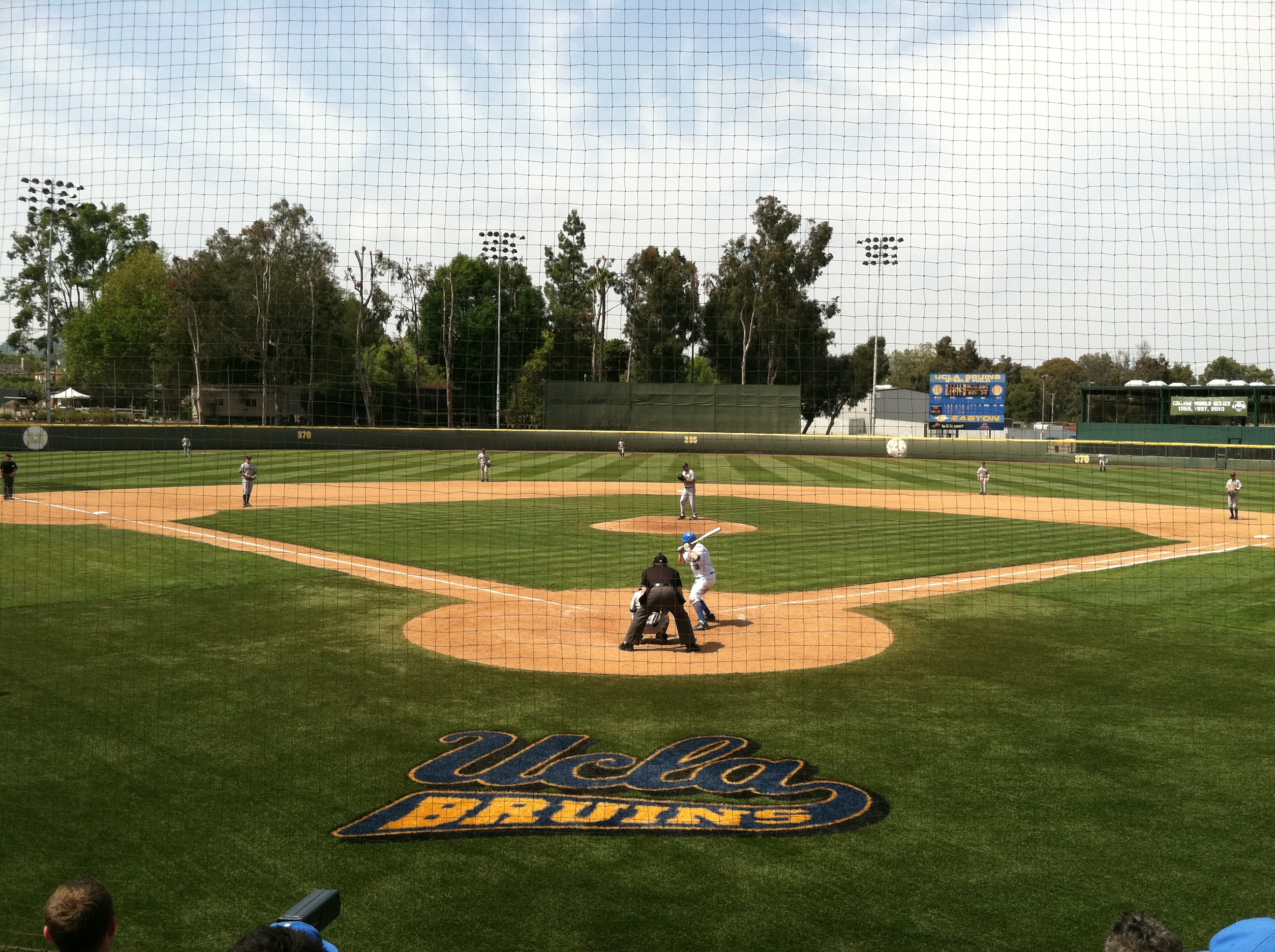 UCLA's home baseball stadium. Game between California and UCLA.